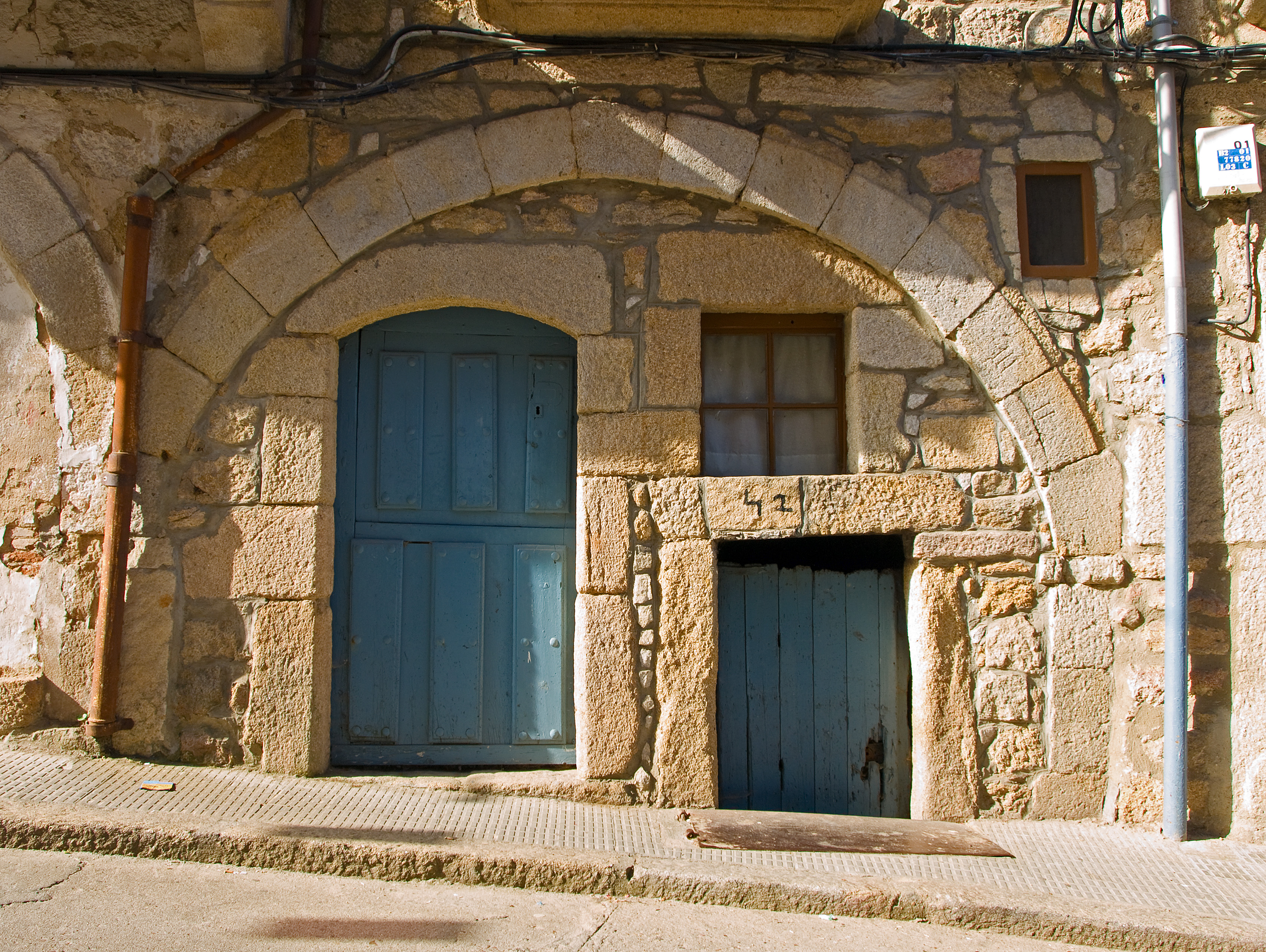 Doors in the spanish town of Fermoselle, in the province of Zamora